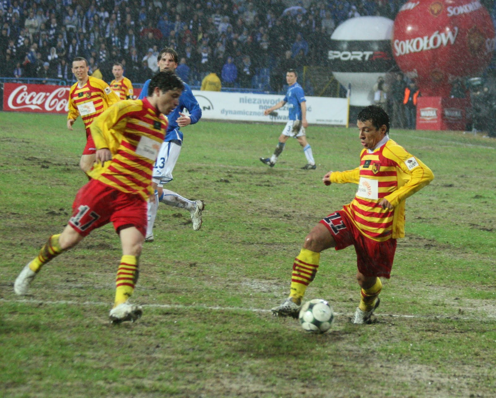 Hermes Neves Soares (n°11), Jagiellonia Białystok's player.